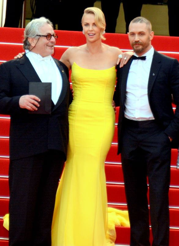 George Miller, Charlize Theron and Tom Hardy promoting "Mad Max : Fury Road" at the Cannes film festival